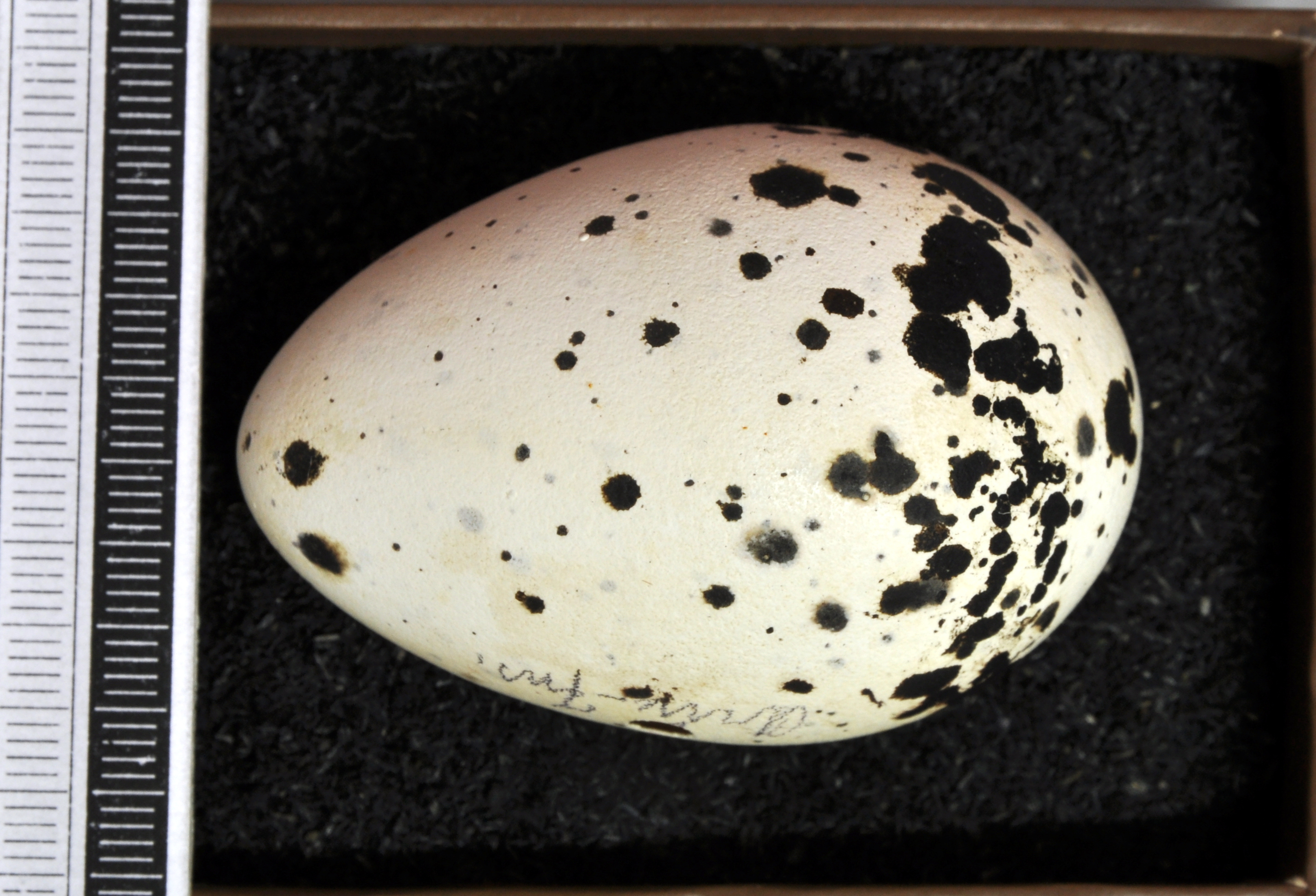 Greater crested tern Thalasseus bergii , egg, Coll. Museum Wiesbaden